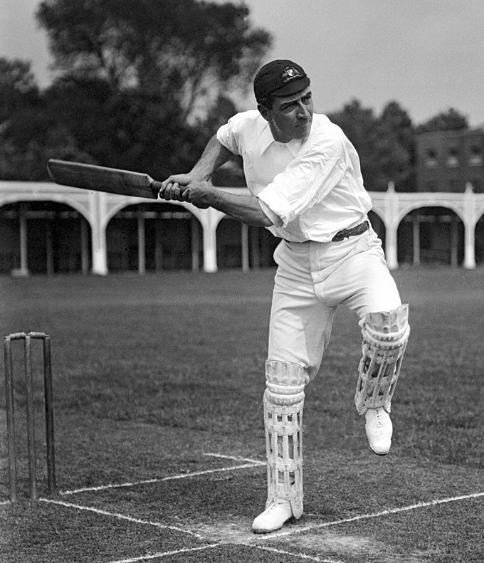 Frank Jonas Laver, Victoria and Australia, circa 1905.